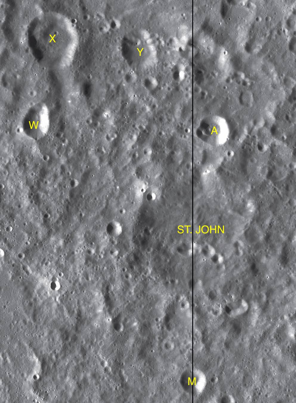 Parts of the charts LAC-66, LAC-67 used for the presentation